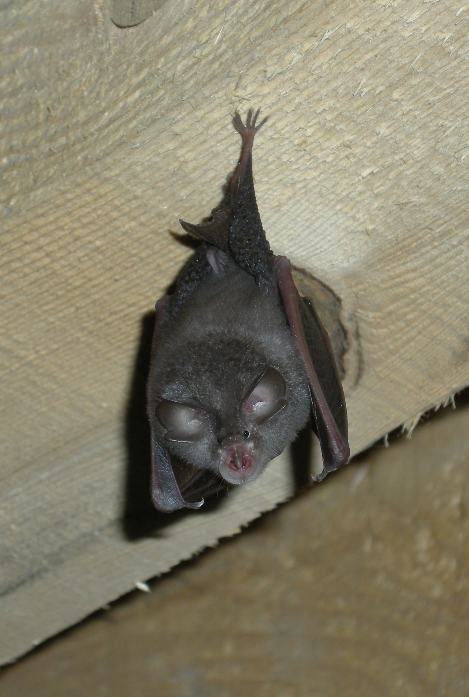 Common Pipistrelle Horseshoe bat suspended on a balk, place nam Le Peyroux, Combronde (Puys de Dôme, France)